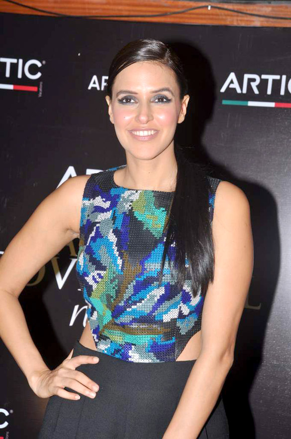 Neha Dhupia at Maxim - Artic Vodka bash